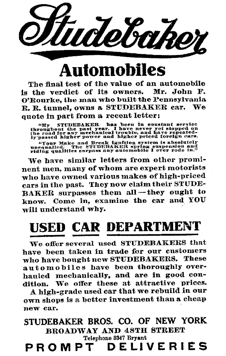 A 1909 Studebaker Advertisement